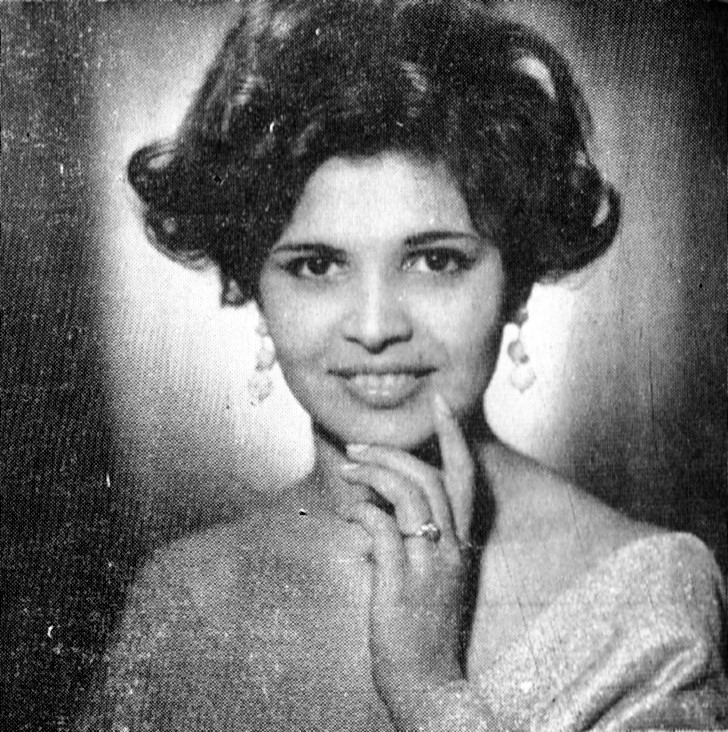 Romanian jazz singer Aura Urziceanu in the mid-1960s.